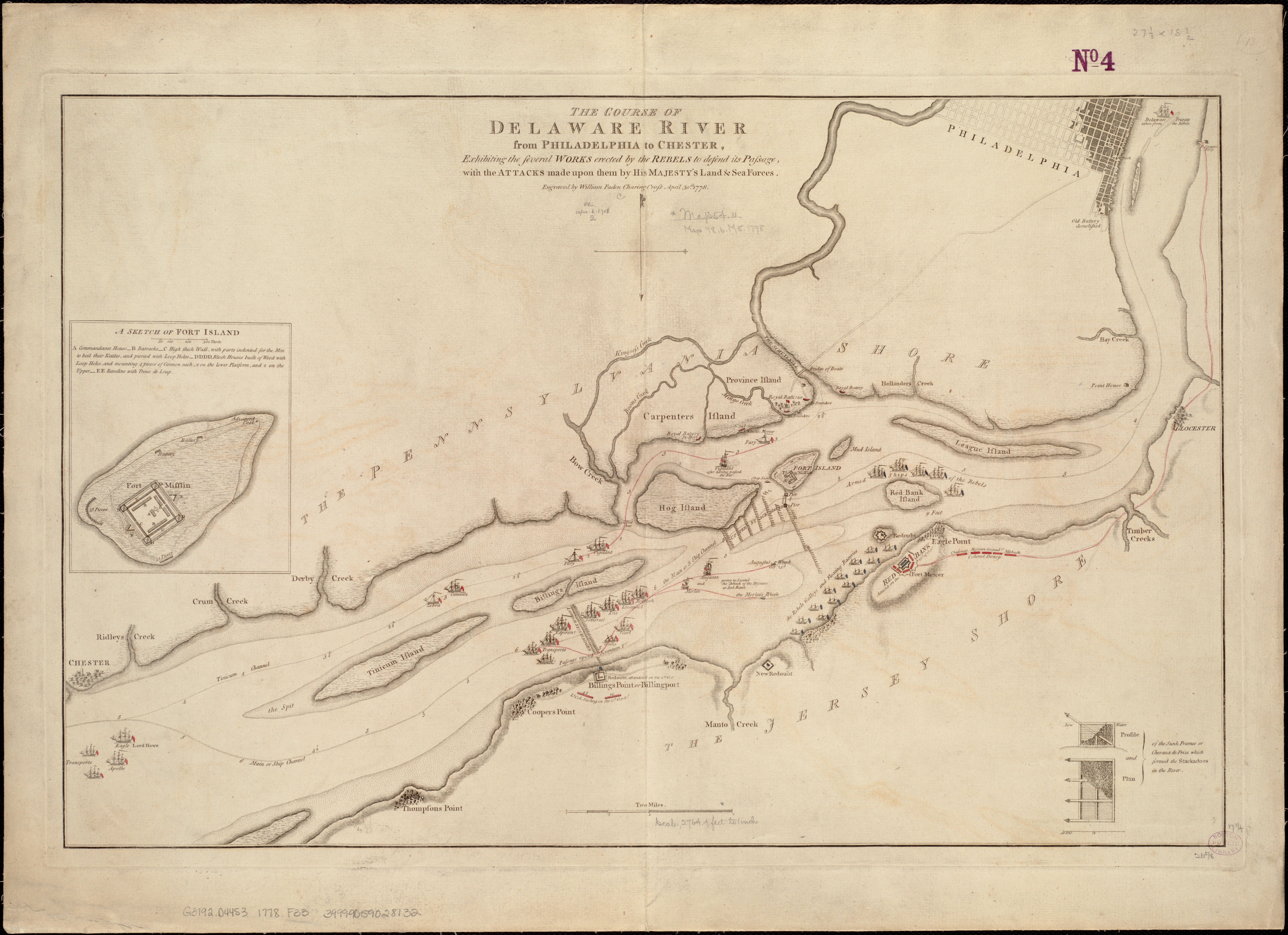 Zoom into this map at . Author: Faden, William Publisher: Date: 1778 Location: Delaware River (N.Y.-Del. and N.J.), New Jersey, Pennsylvania Dimension: 44x68cm Scale: ca. 1:33,200 Call Number: G3792.D44S3 1778 .F33